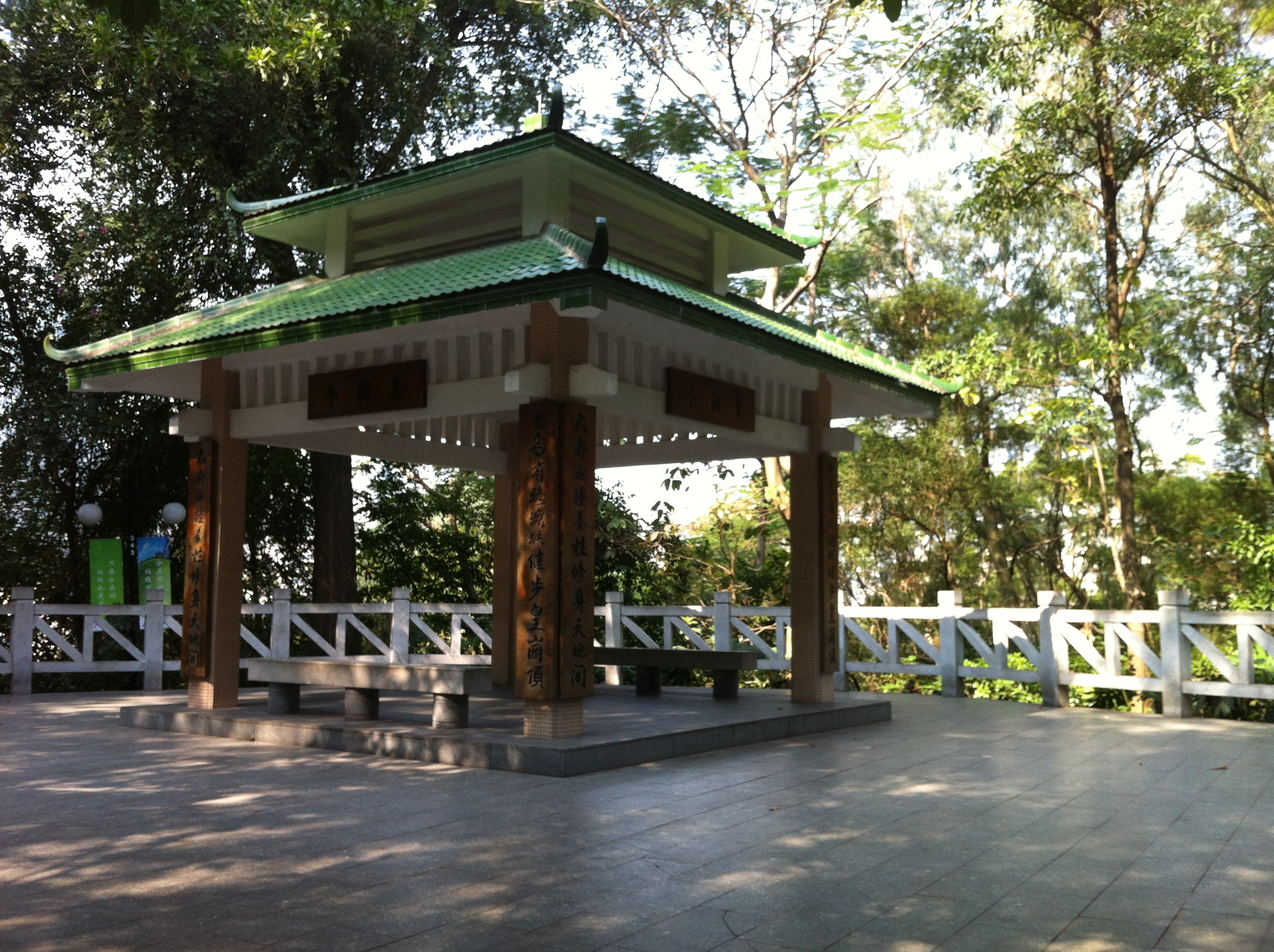 Huanggang Pavalilion of Shenzhen